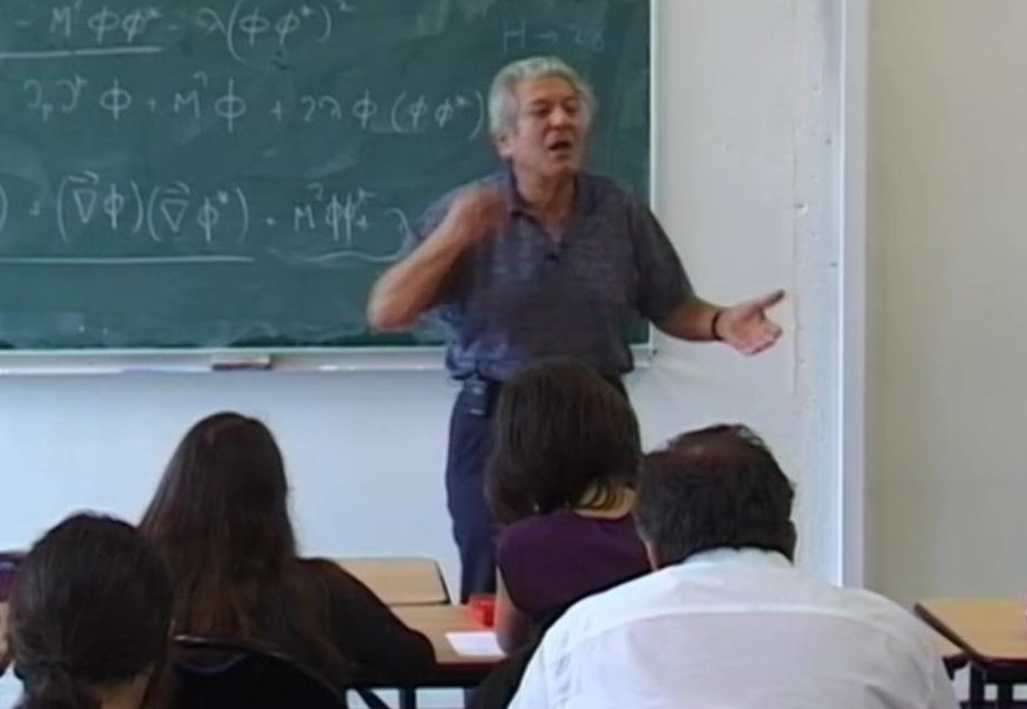 Jean Iliopoulos (Ecole Normale Supérieure)